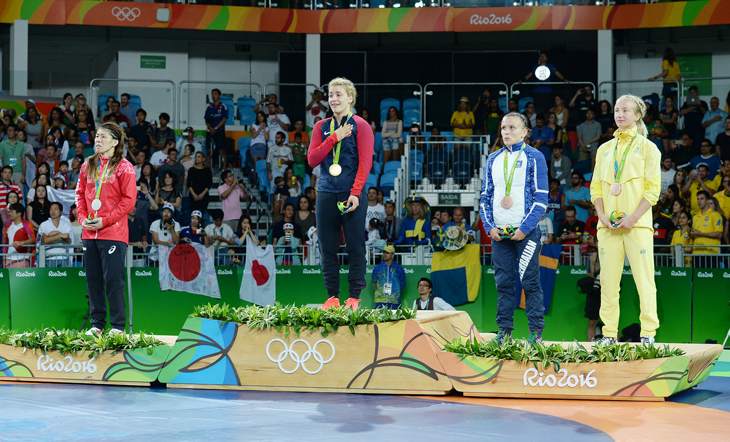 2016 Summer Olympics Women's wrestling 53 kg awarding ceremony